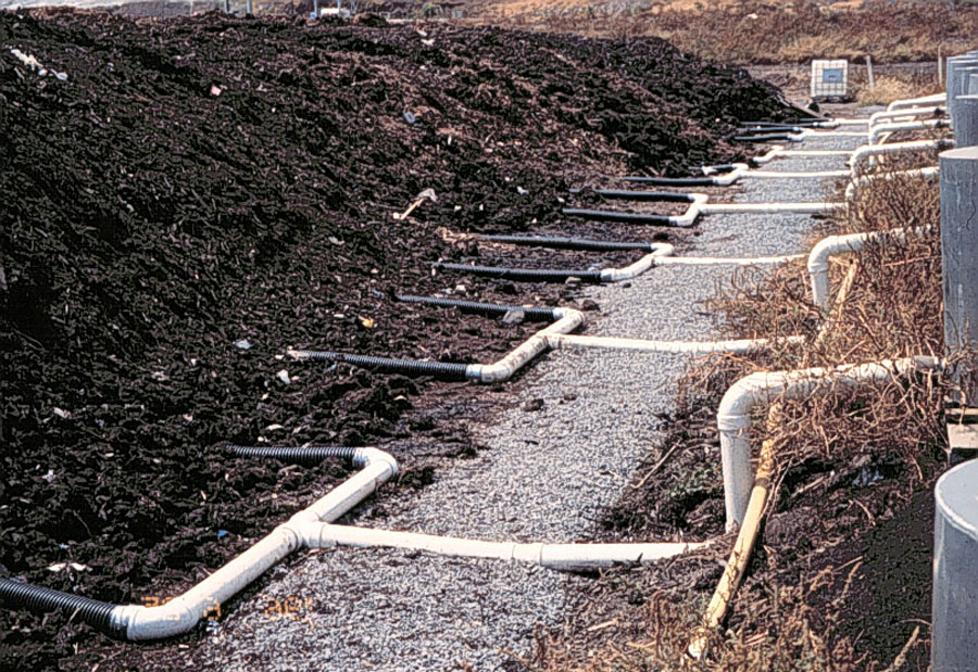 Manure pit with treatment hose